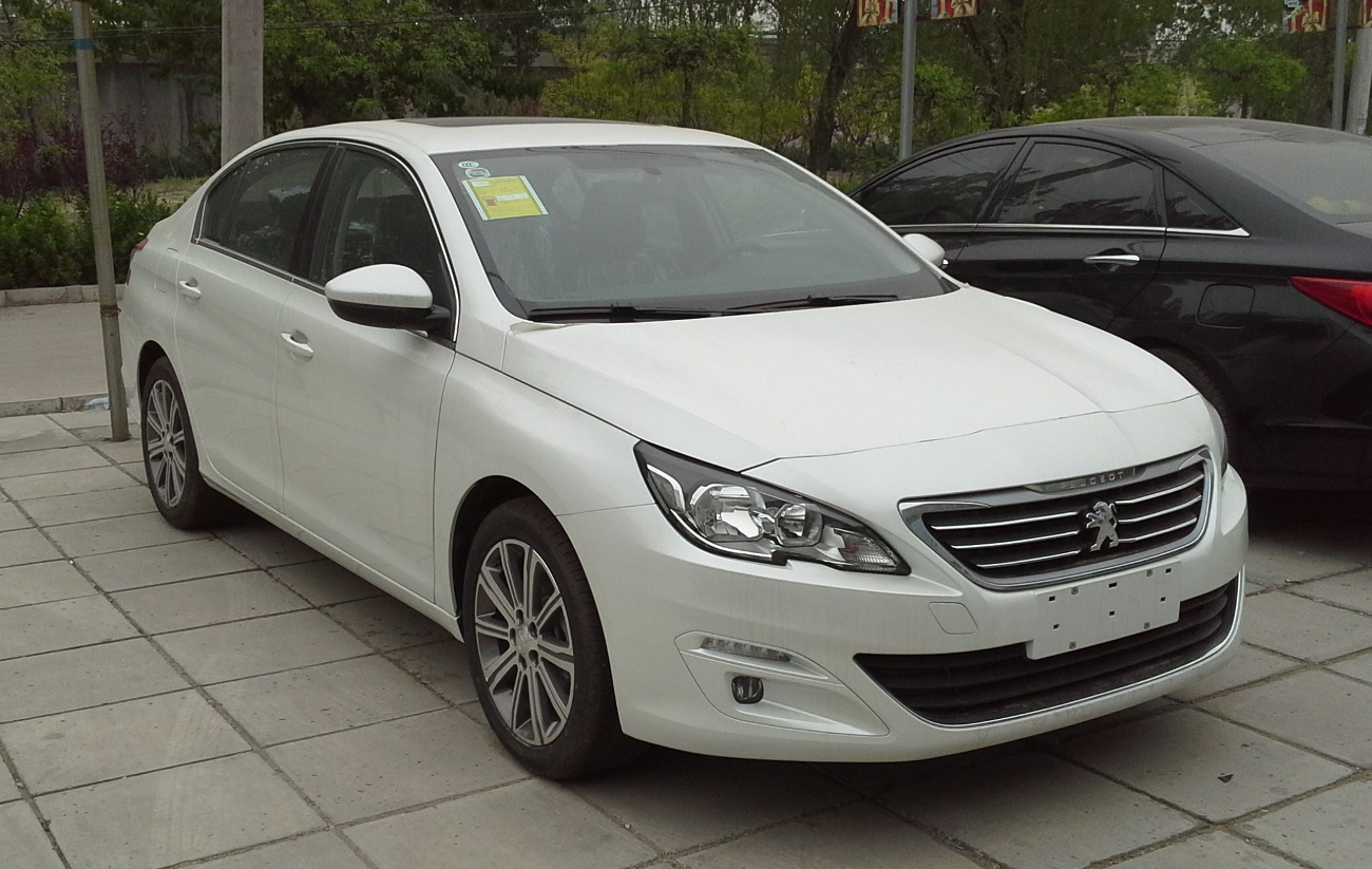 Peugeot 408 II photographed in Beijing, China.